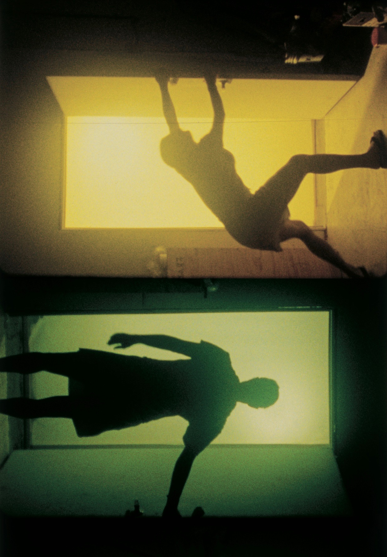 Video still from Dara Friedman's "Bim Bam"